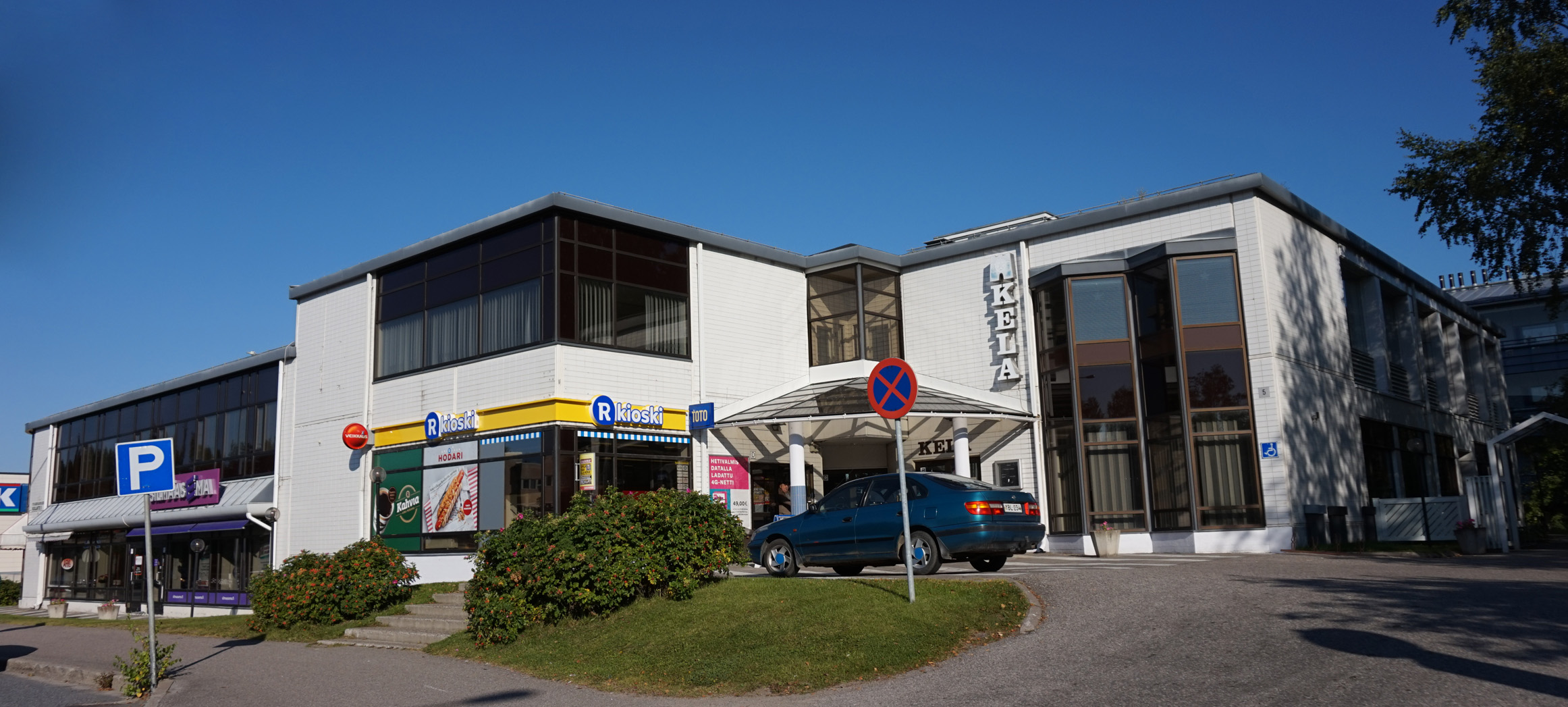 Alavus, Finland.This photograph was taken with a Sony ILCE-5000